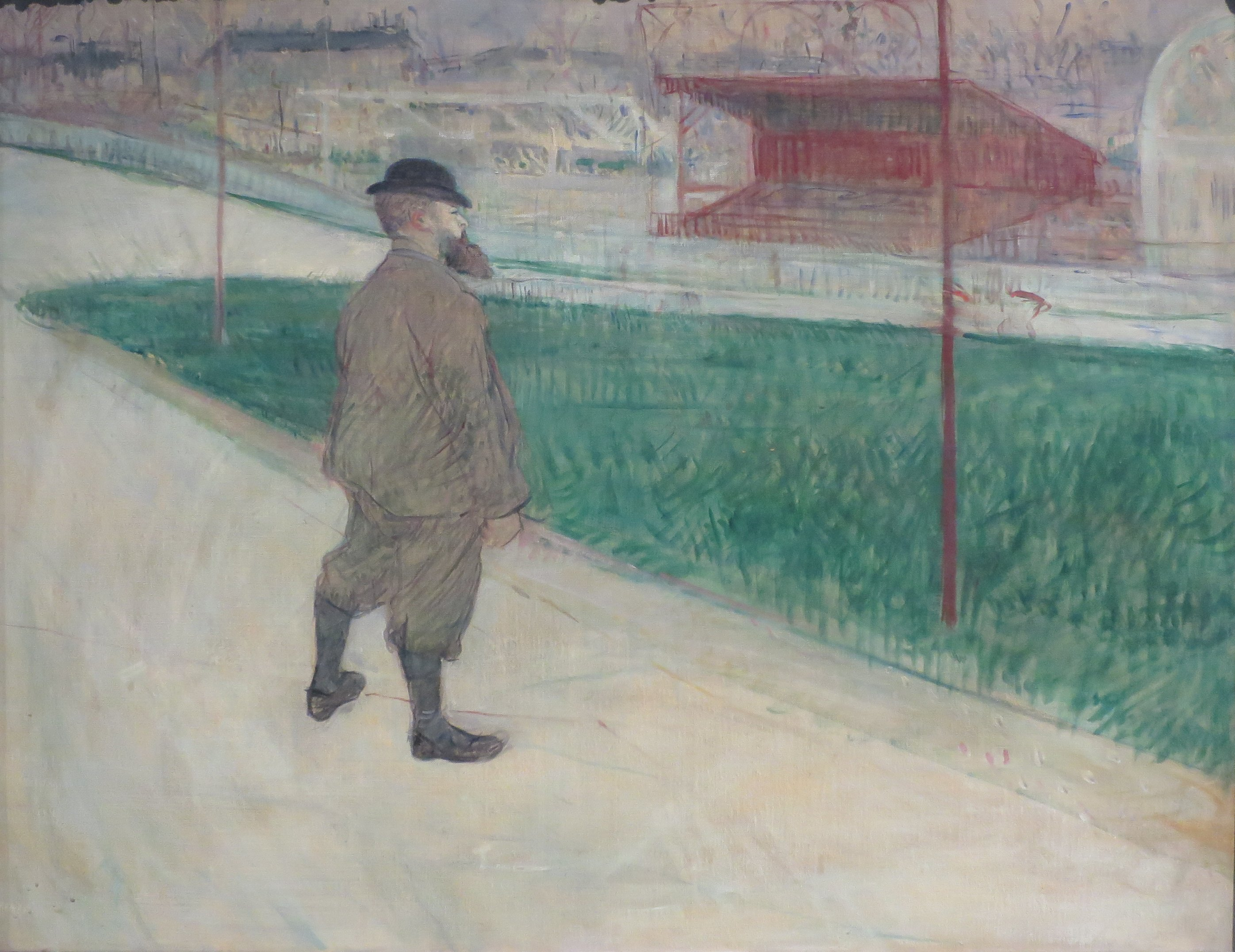 Tristan Bernard at the Buffalo Station by Henri de Toulouse-Lautrec, 1895, oil on canvas, private collection